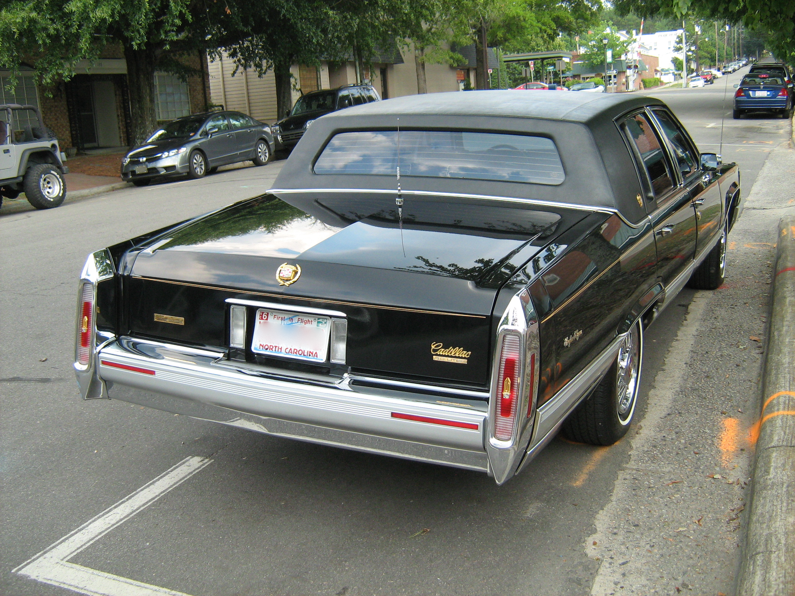 1991 Cadillac Fleetwood d'Elegance, "gold-edition" in triple-black